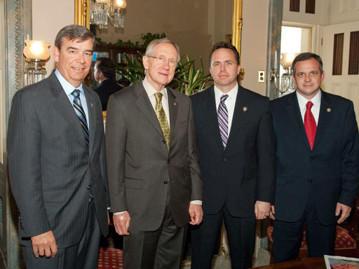 Nevada Senator Harry Reid, Las Vegas Metropolitan Police Sheriff Doug Gillespie, Police Director of Intergovernmental Affairs Tom Roberts, and Metro Police Sergeant Chuck Callaway